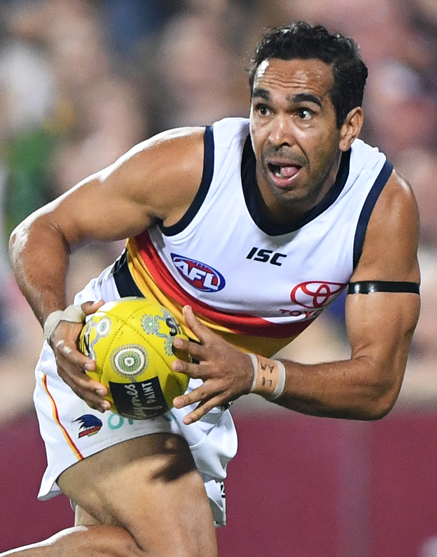 Eddie Betts of Adelaide during the 2019 AFL round 11 match between Melbourne and Adelaide at TIO Stadium on Saturday, 1 June 2019 in Darwin, Northern Territory.